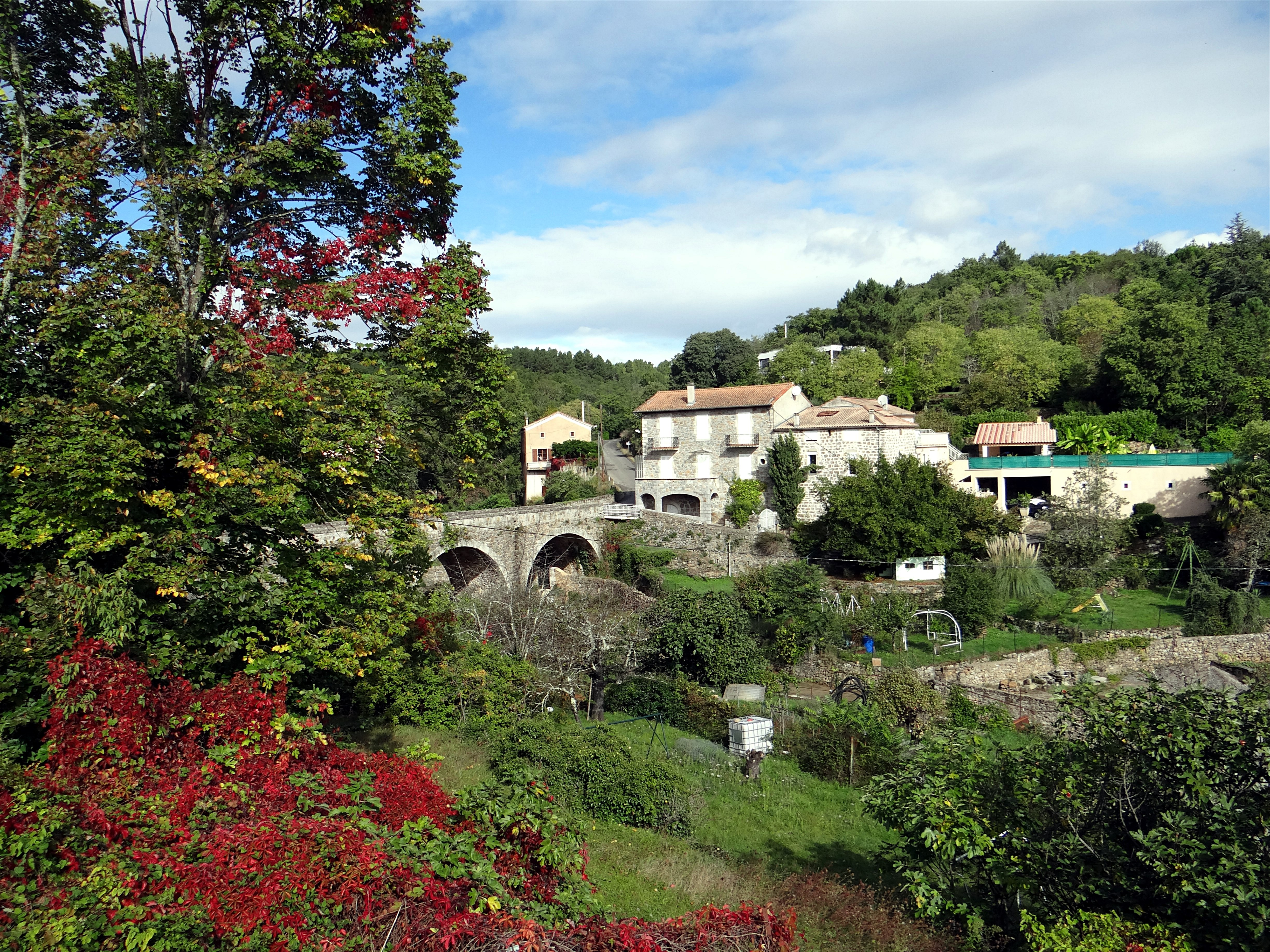 Bridge Creek Toufache, Laurac-en-Vivarais, Ardèche, France.